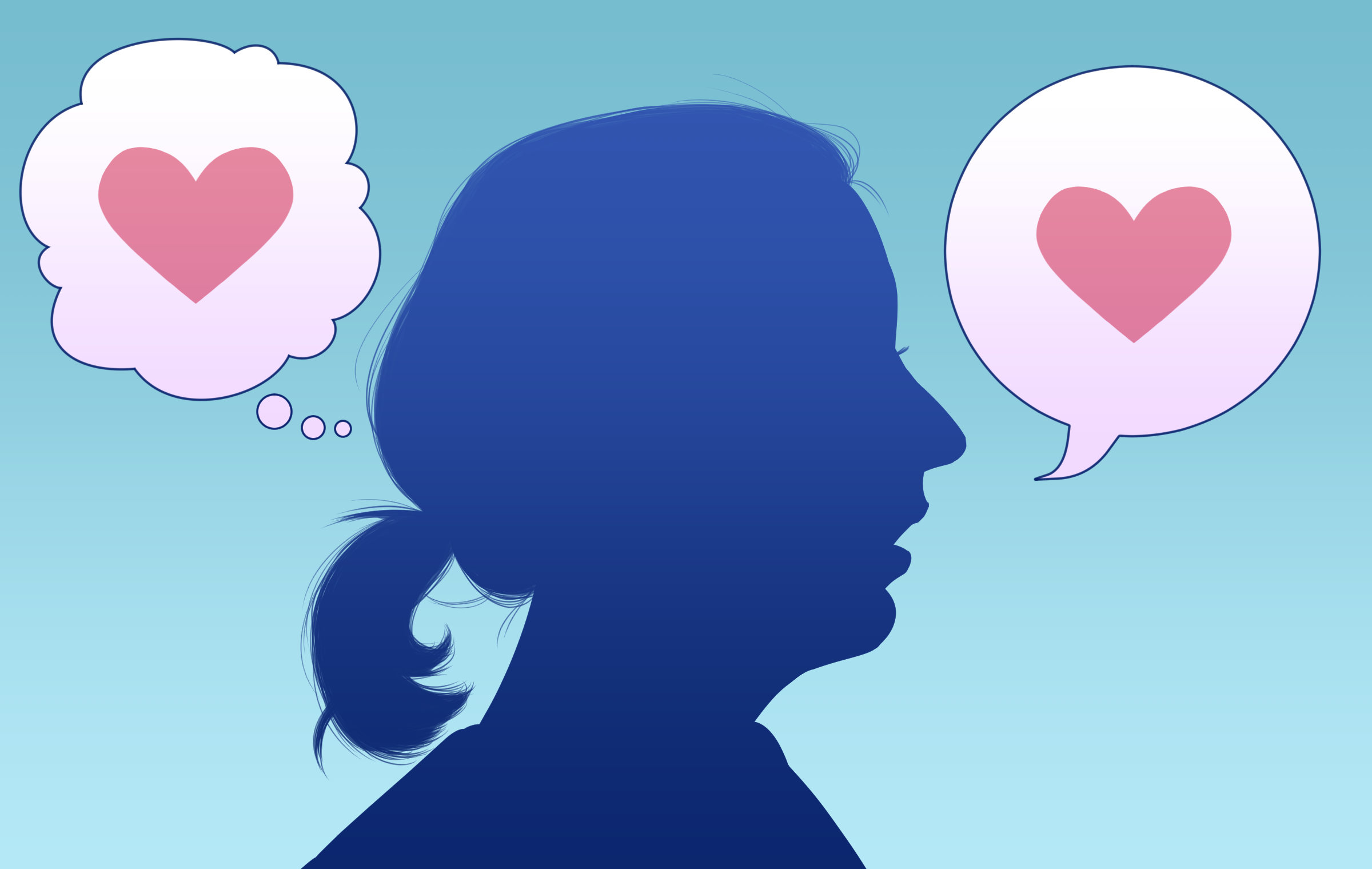 Autistic people tend to speak honestly and without deception. They tend to say what they believe. Since many autistics can be easily deceived, they also depend on the sincerity of others (and may benefit from mentors who can protect them from being taken advantage of).